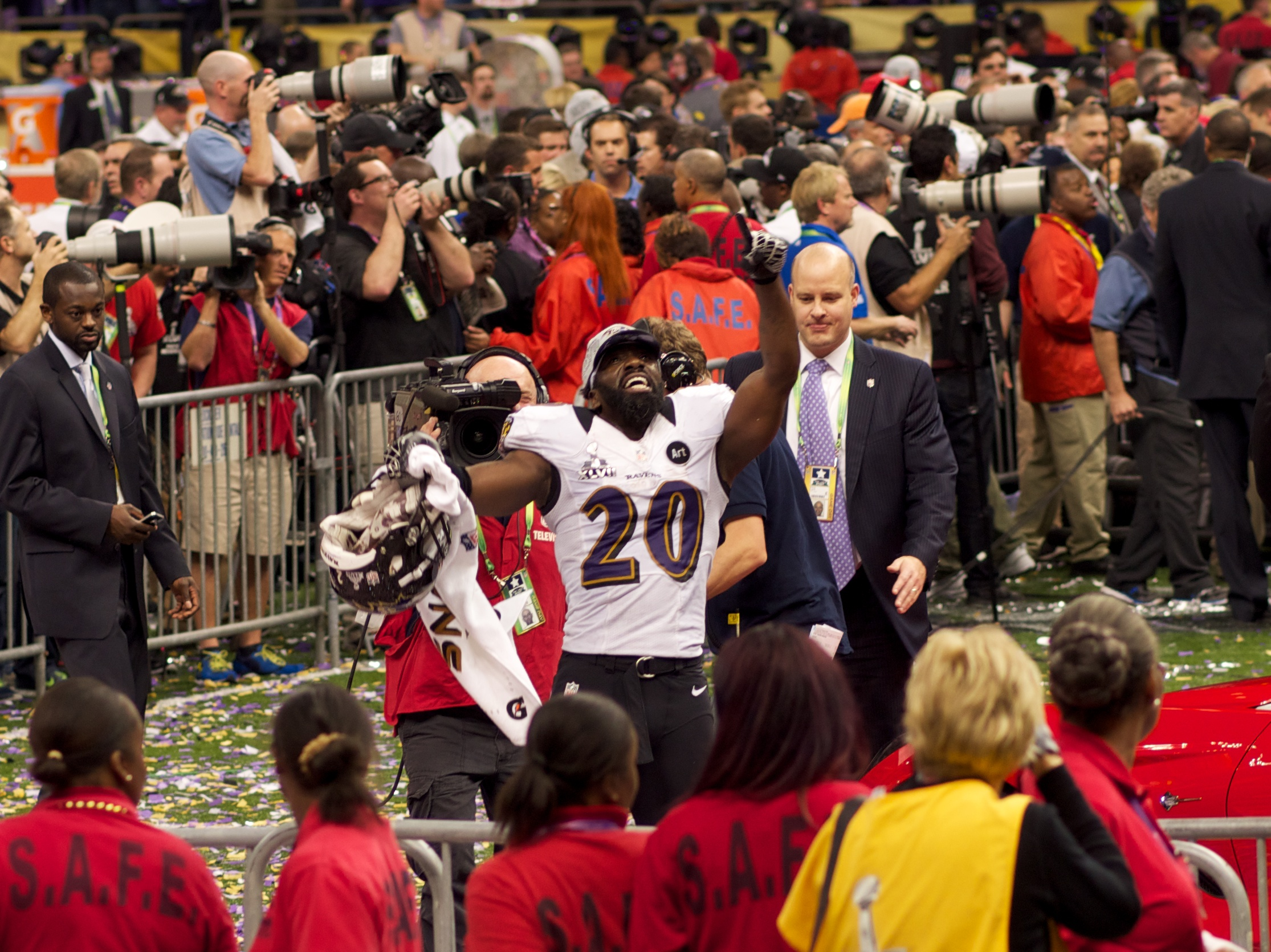 Ed Reed celebrating following Super Bowl XLVII